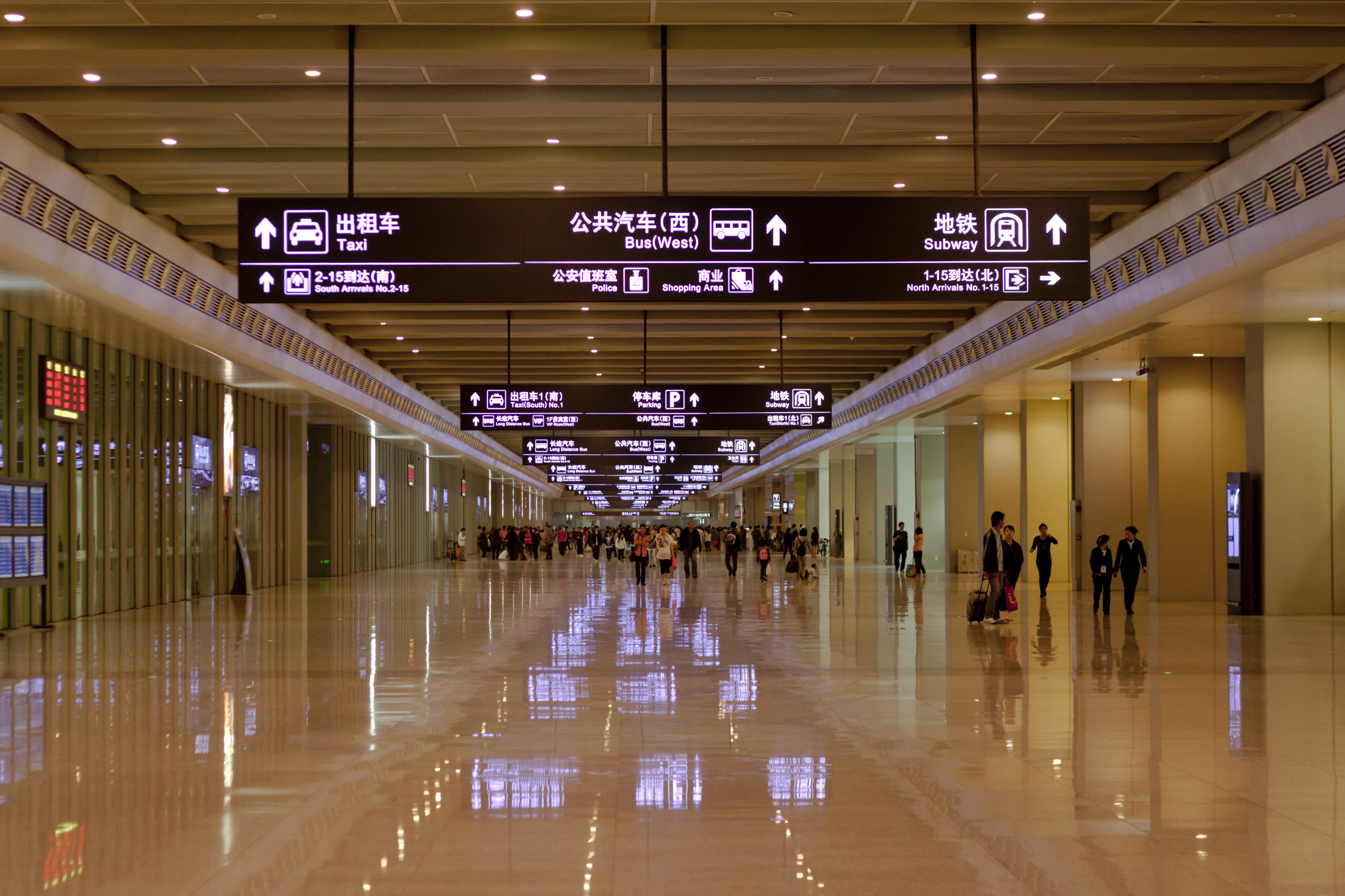 Shanghai Hong Qiao Station Leaving Hall